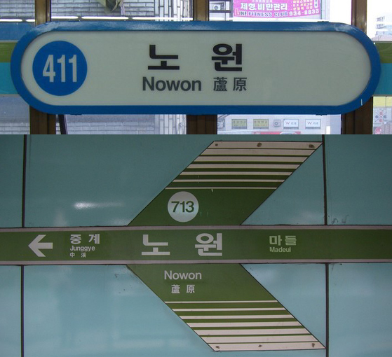 Nowon Station